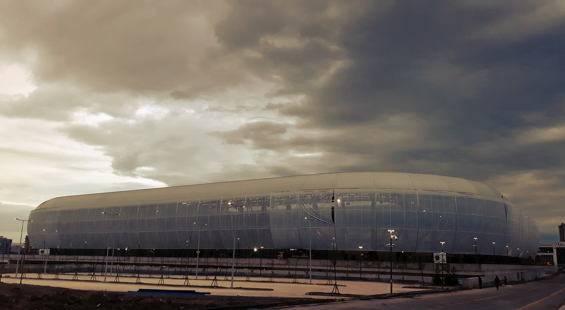 Ankara Eryaman Stadium